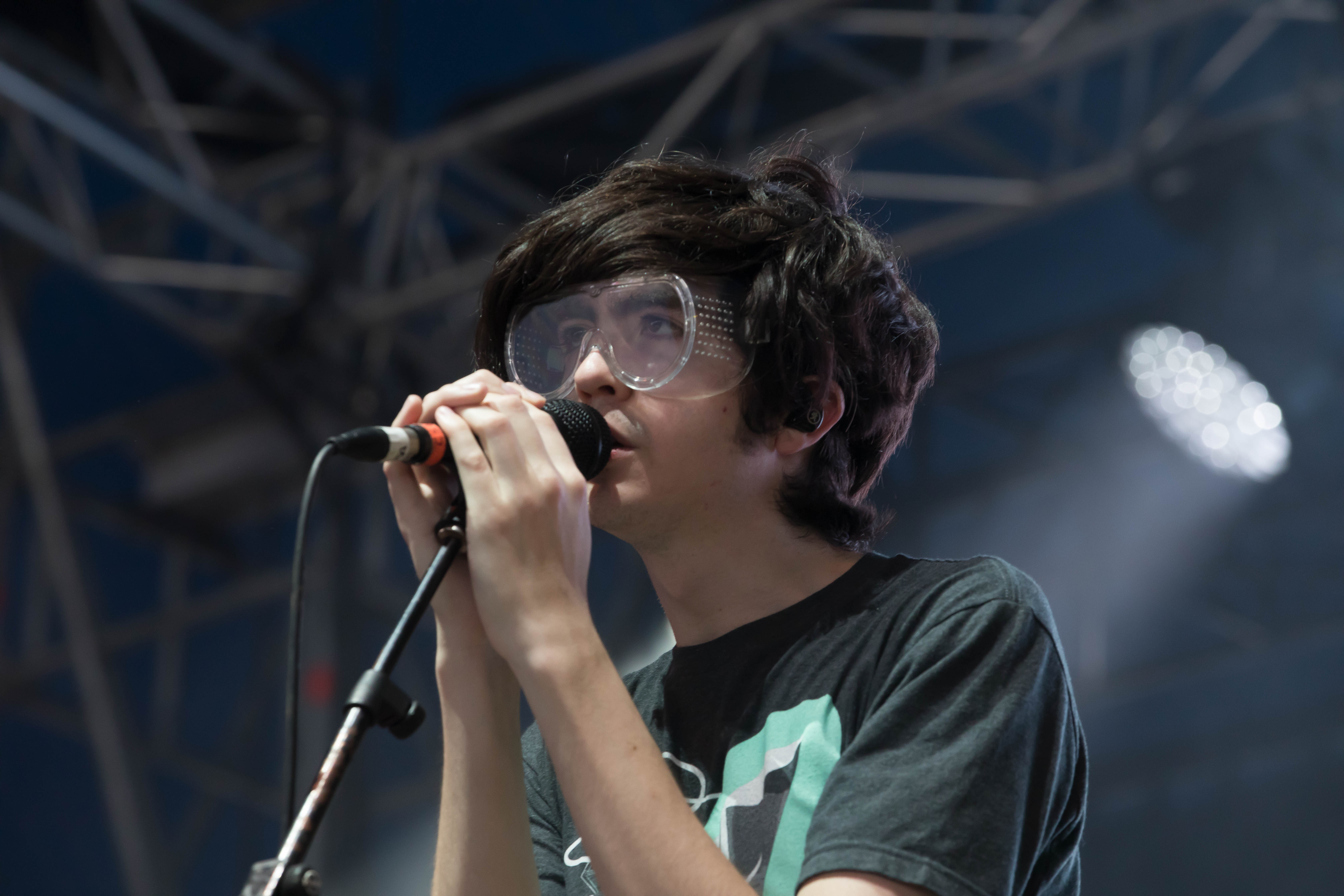 Car Seat Headrest performing at Sydney City Limits 2018